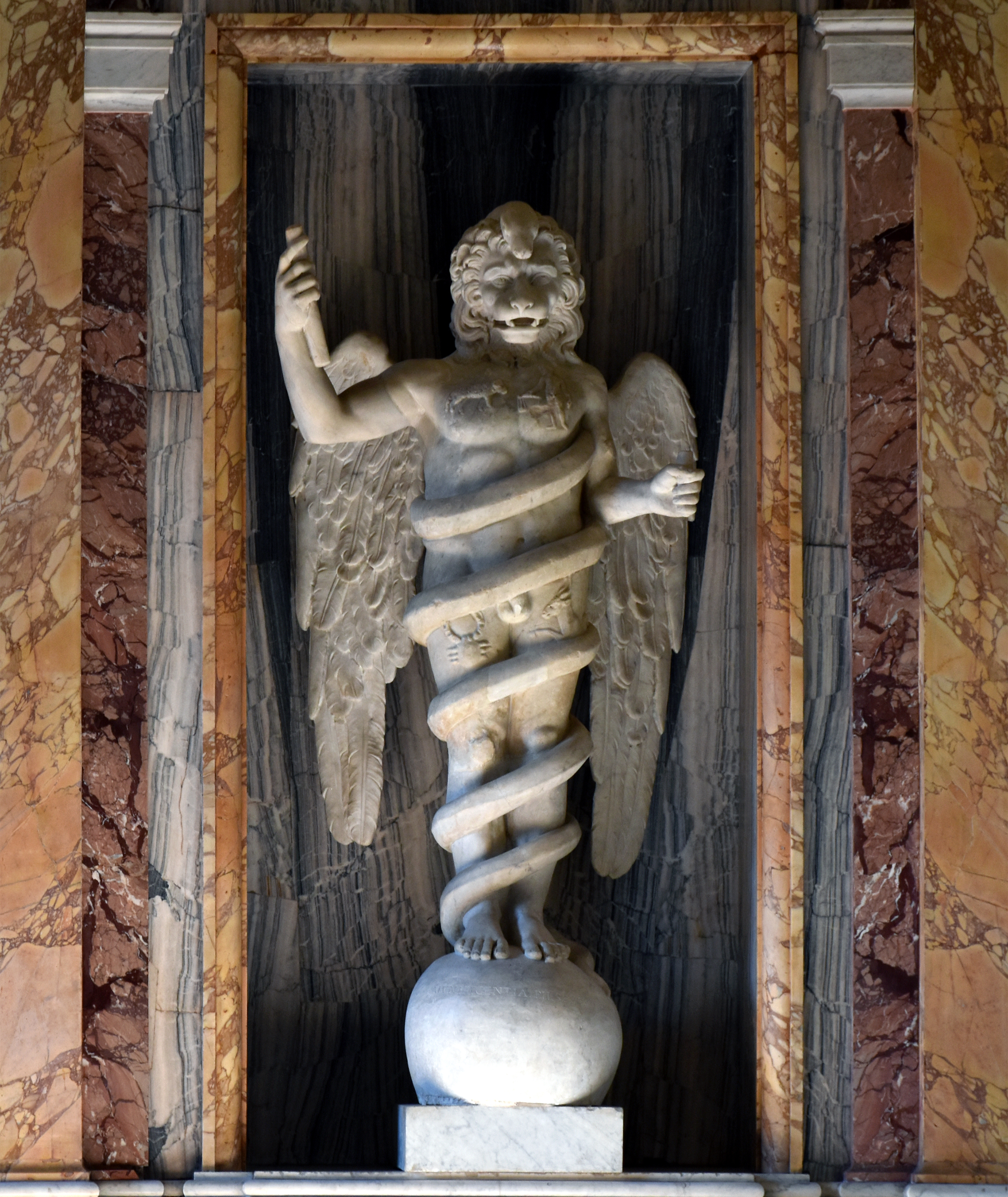 Leontocephaline, in Musei Vaticani.